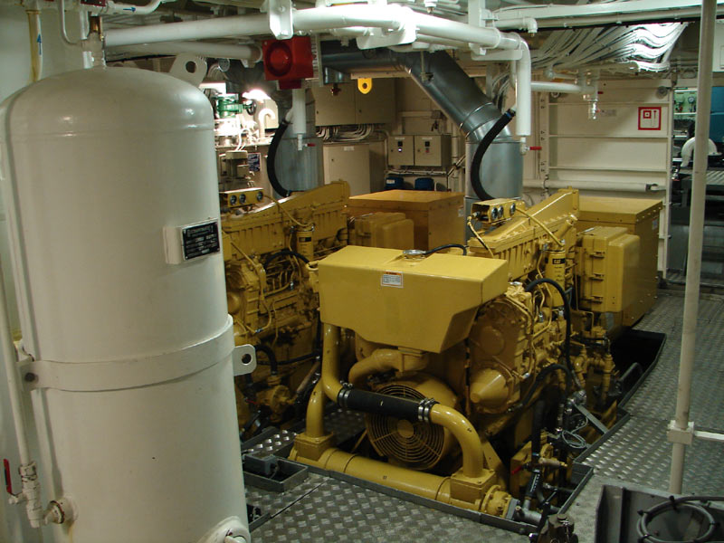 A Diesel generator on the Argonaute, Caterpillar 3406, 345 kW.